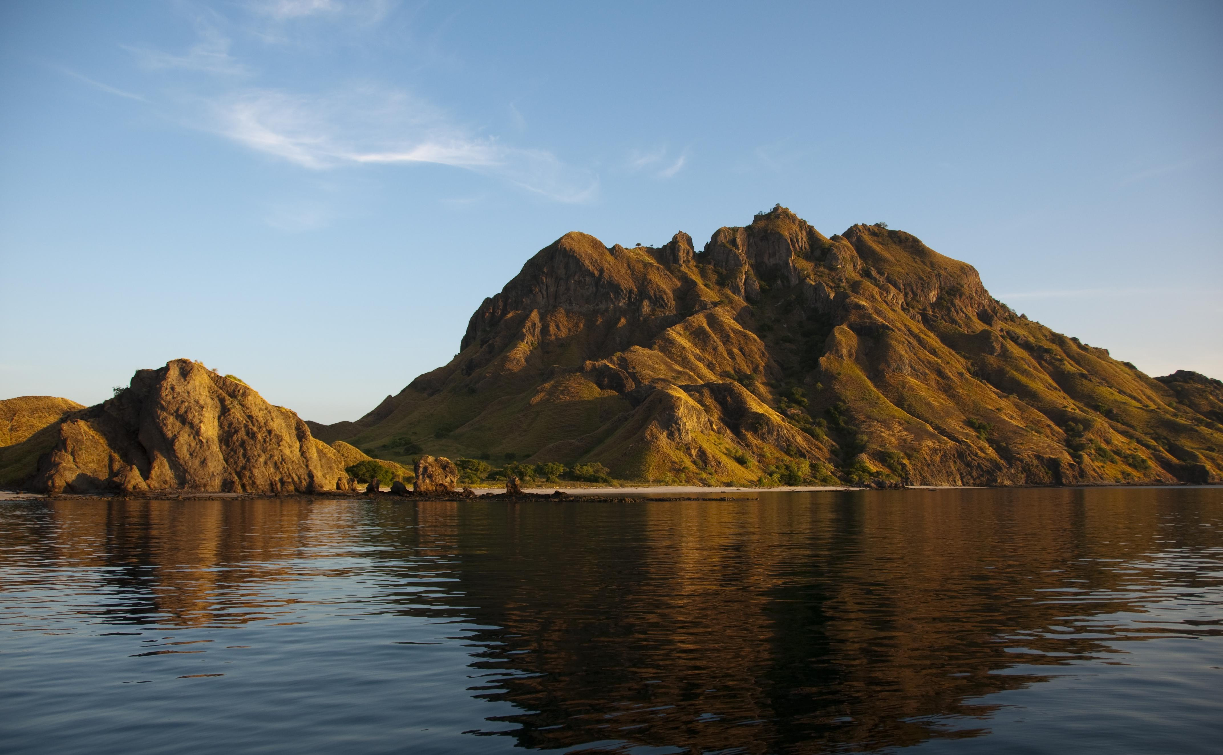 Sunrise on Komodo Island, Indonesia